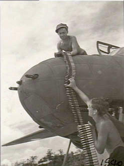 AWM caption : NOEMFOOR ISLAND, DUTCH NEW GUINEA. C. 1944-08. 41716 LEADING AIRCRAFTMAN (LAC) W. C. TURNER, BENDIGO, VIC (ON TOP OF PLANE) AND 69613 LAC F. BAUMER, FIVEDOCK, NSW, LOADING .50 INCH CALIBRE AMMUNITION ONTO A BOSTON BOMBER AIRCRAFT OF NO. 22 SQUADRON RAAF PRIOR TO TAKING OFF ON A STRIKE OVER ENEMY TERRITORY.